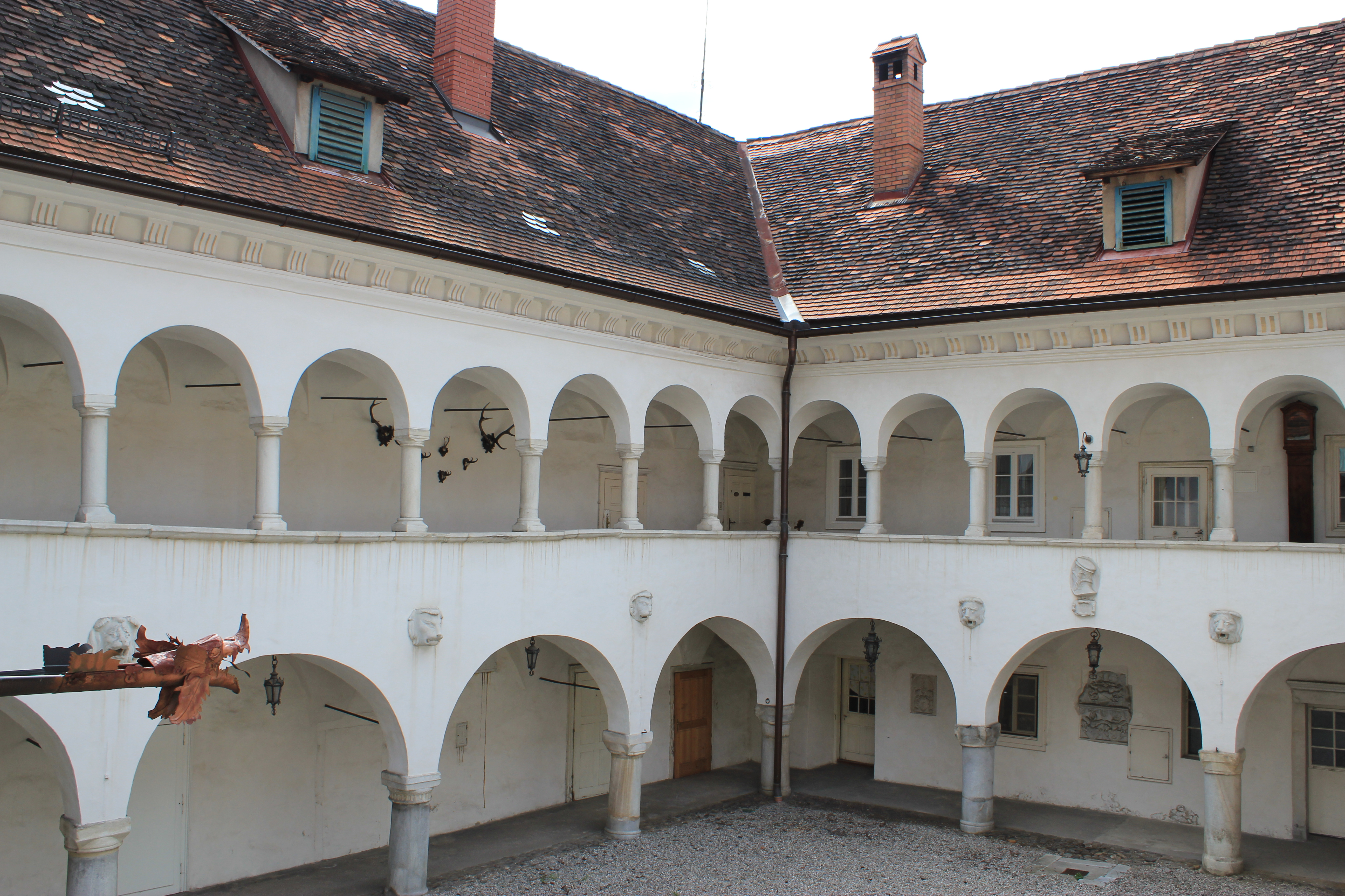 Bayerhofen castle in the community of Wolfsberg - court